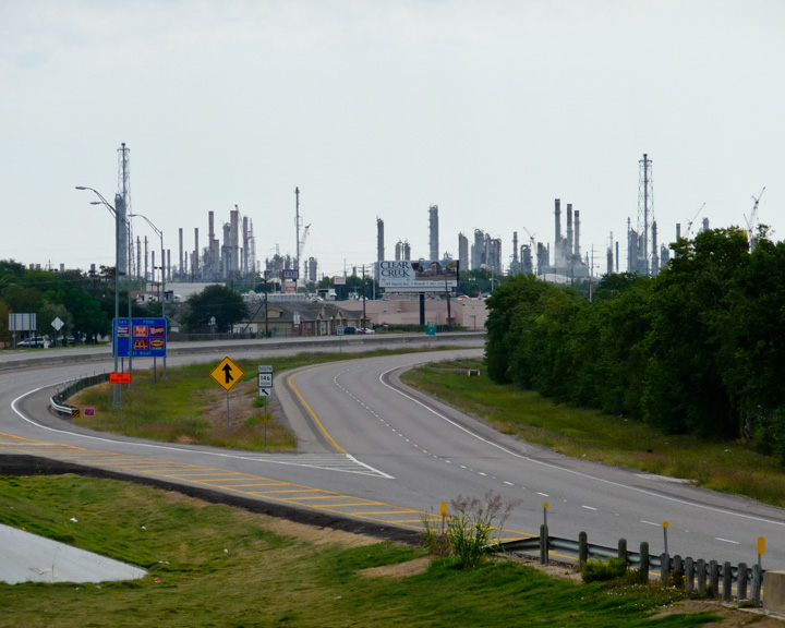 View of Texas City, TX, from the north end of town where TX 146 crosses over Loop 197/25th Avenue